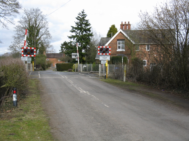 Ashford Bowdler Level Crossing The automatic half-barrier crossing is located on the only access to the village. Telephones are provided to contact the signaller at Woofferton Junction, about 1.4 miles to the south. The house pictured was, very briefly, a station, before being used as the crossing keeper's accommodation. The current owner informed me that the building was a station between 1850-52 and the then station master, his wife and eight children lived in just four rooms (two upstairs, two downstairs).